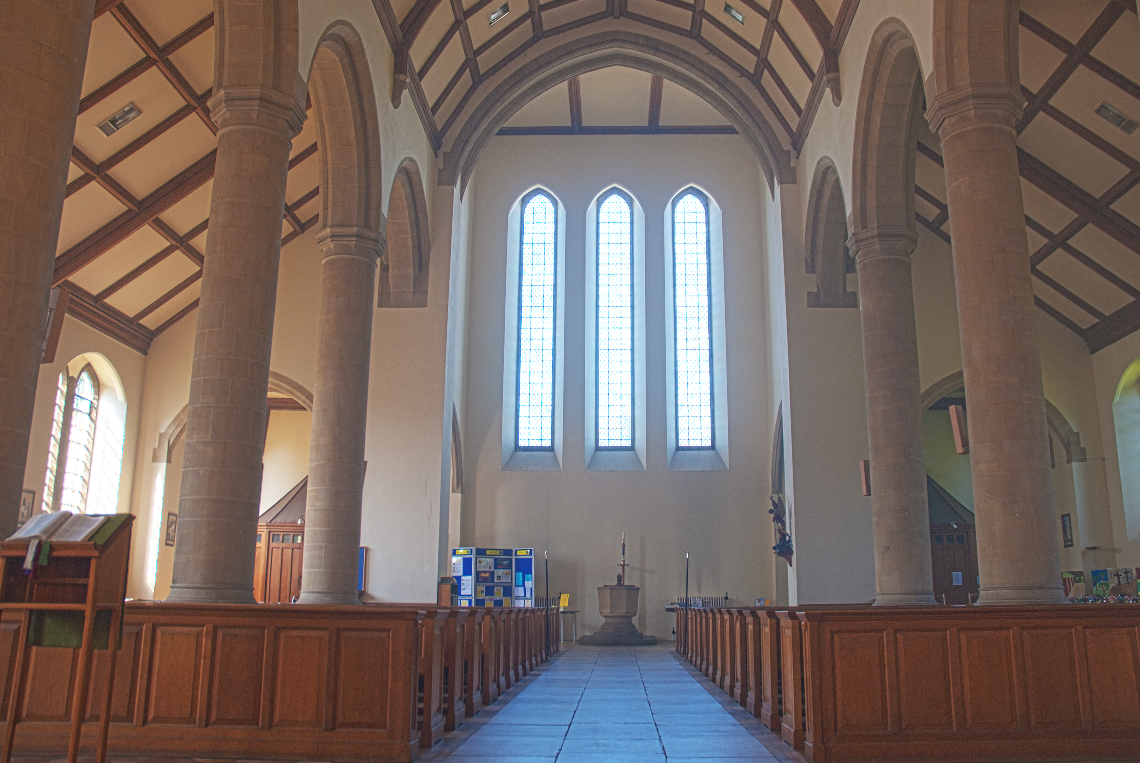 All Saints' Hockerill Church, Bishop's Stortford. Architecture by Stephen Dykes Bower. West part of nave and side aisles. Three lancets on far west wall, font below.